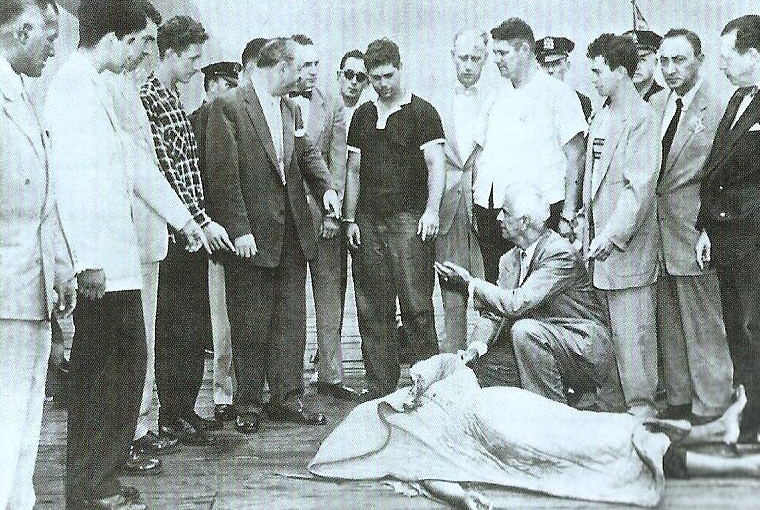 Brooklyn Thrill Killers, alongside body of Willard Mellard